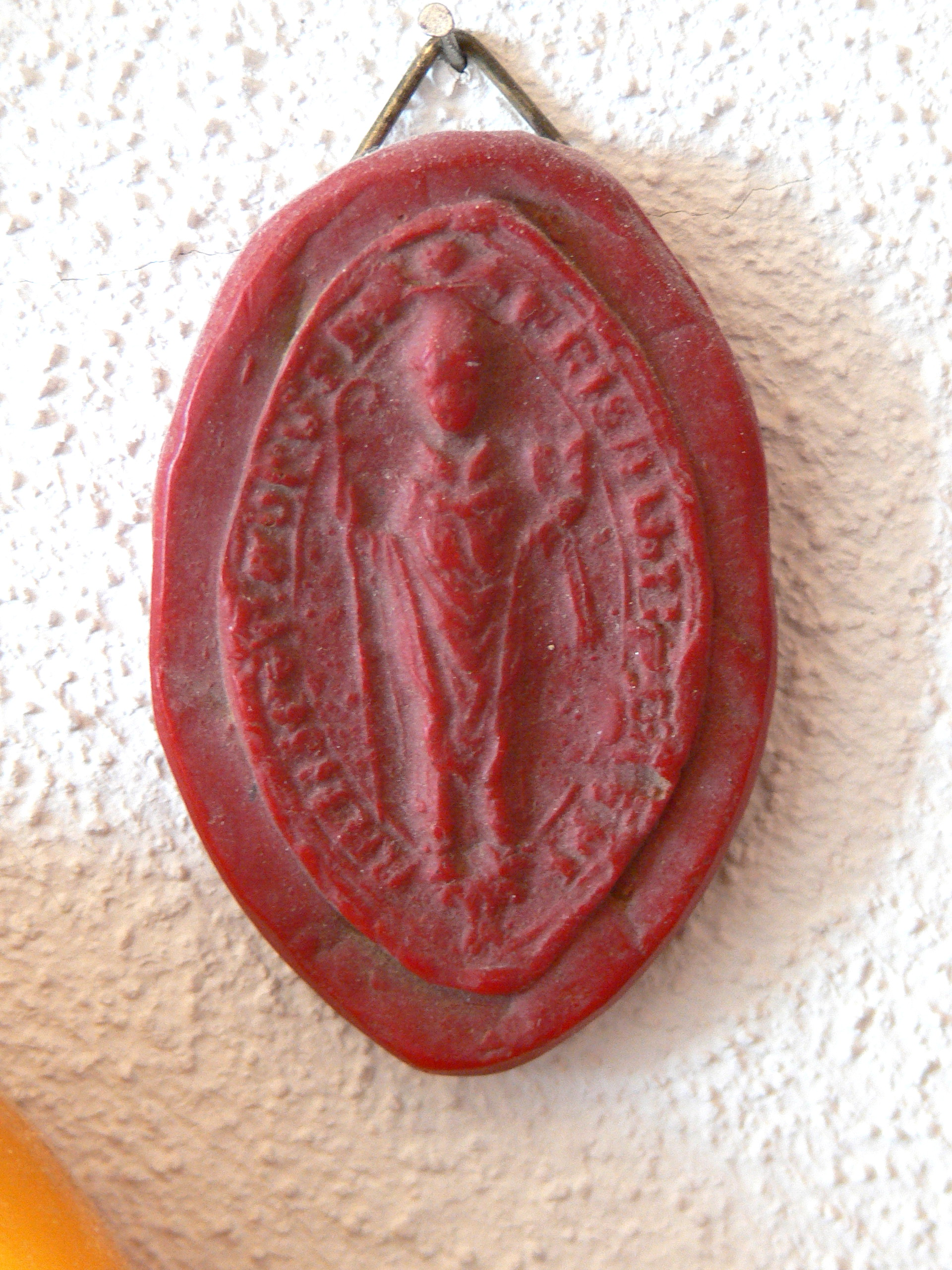 Seal of Albertus Magnus as bishop of Regensburg 1261